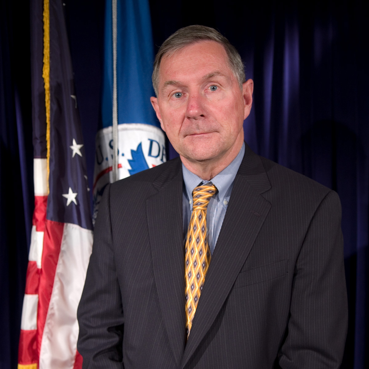 Washington, DC, April 18, 2007 -- Ted Monette, FEMA's Director of the Office of Federal Coordinating Officer Operations in the FEMA studio. FEMA news photo